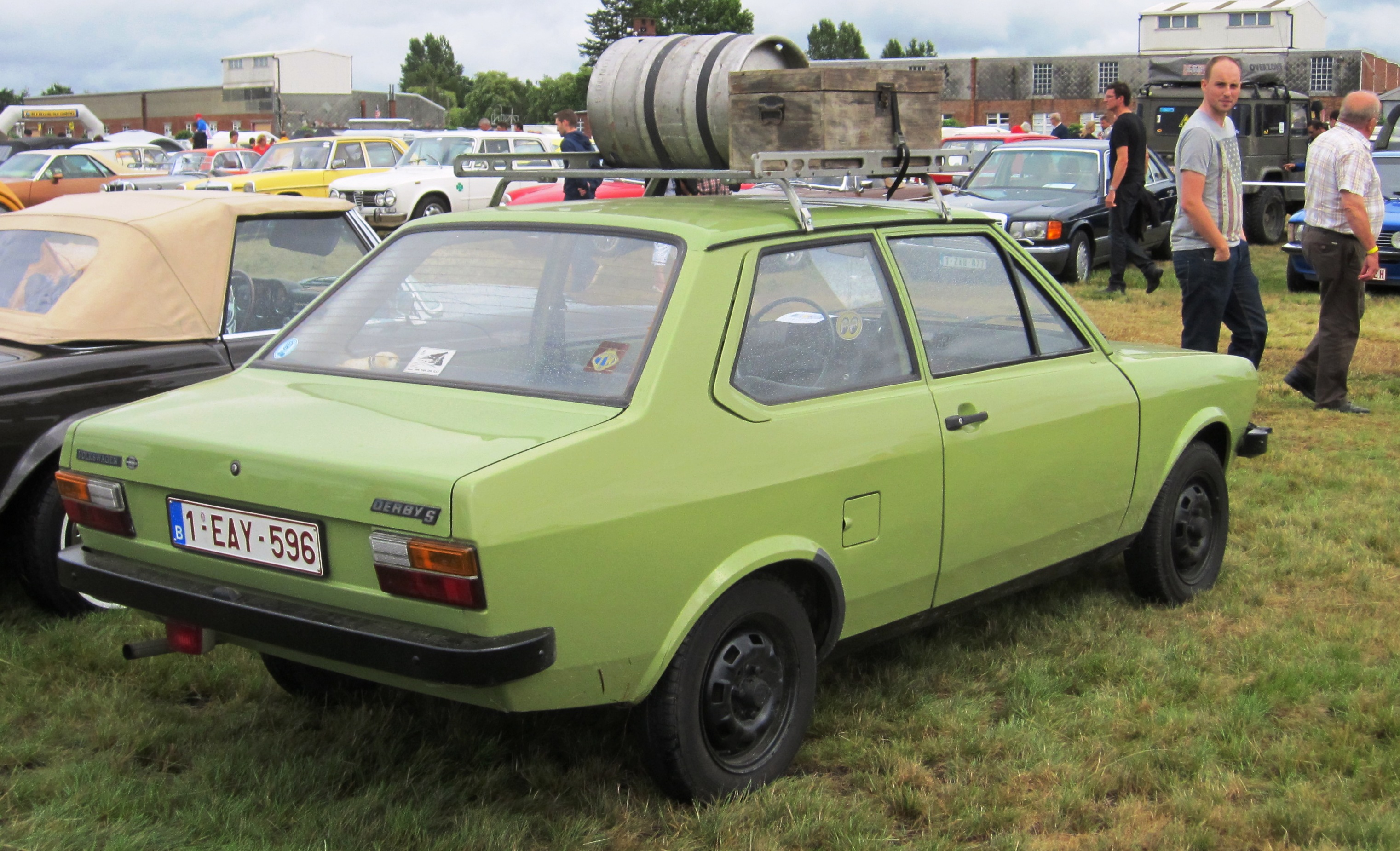 Volkswagen Derby I rear three quarters